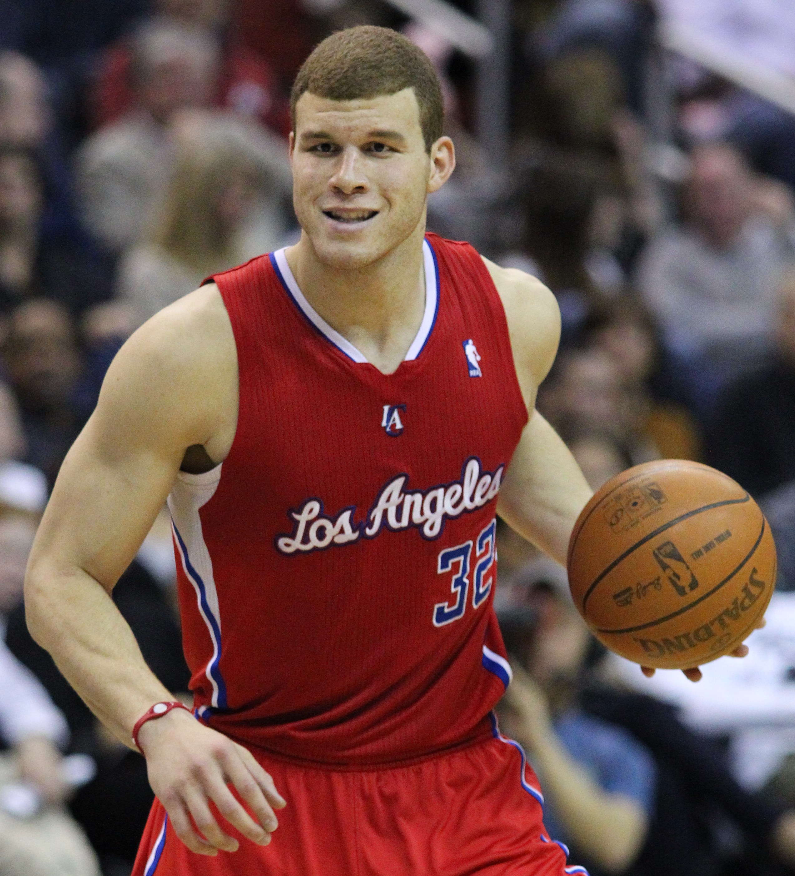 Los Angeles Clippers Blake Griffin during a game against the Washington Wizards at the Verizon Center in Washington on March 12, 2011.